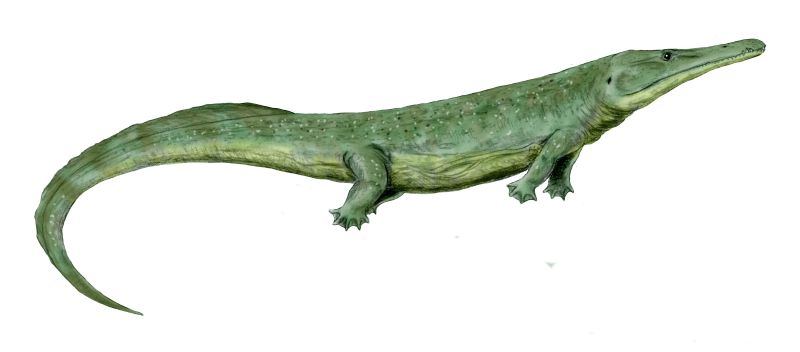 Prionosuchus plummeri, a temnospondyli from the Lower Permian of NorthEast Brazil, pencil drawing